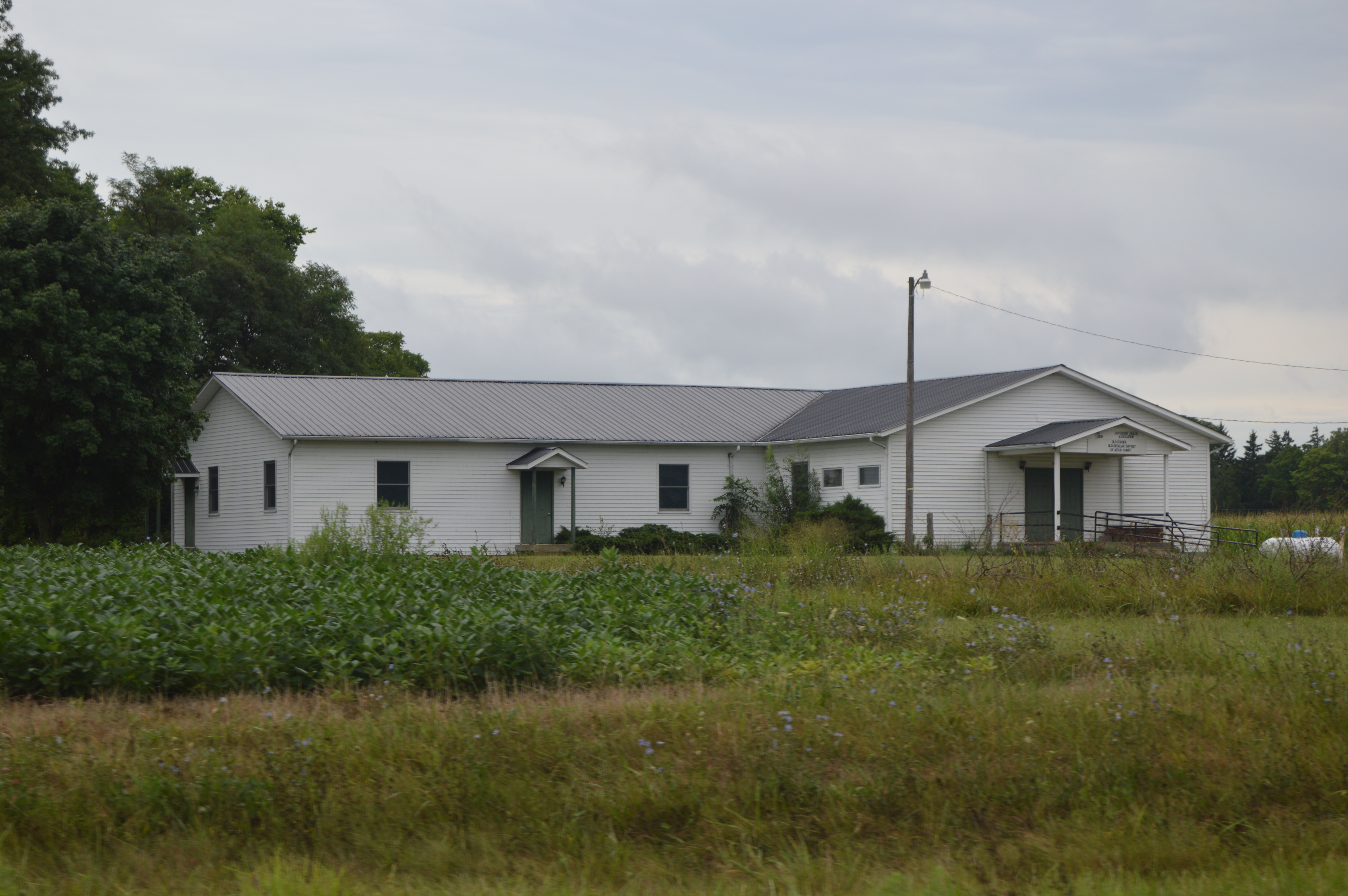 Front of the Mount Zion Old Regular Baptist Church of Jesus Christ, located on State Route 309 between Ada and Kenton in far eastern Marion Township, Hardin County, Ohio, United States.